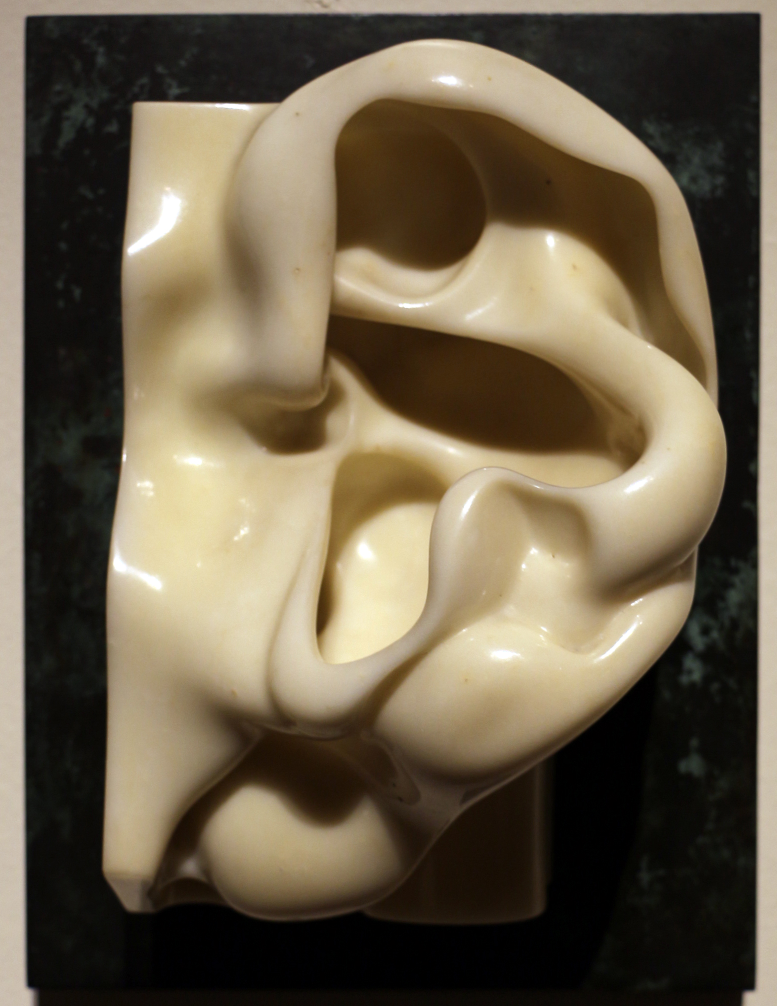 Ear by Adolfo Wildt